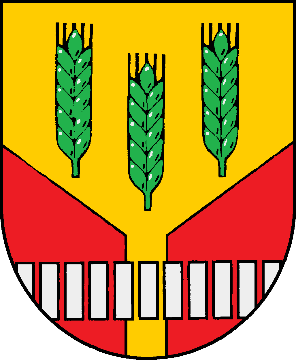 Coat of arms of the municipality Klamp in Schleswig-Holstein, Germany.